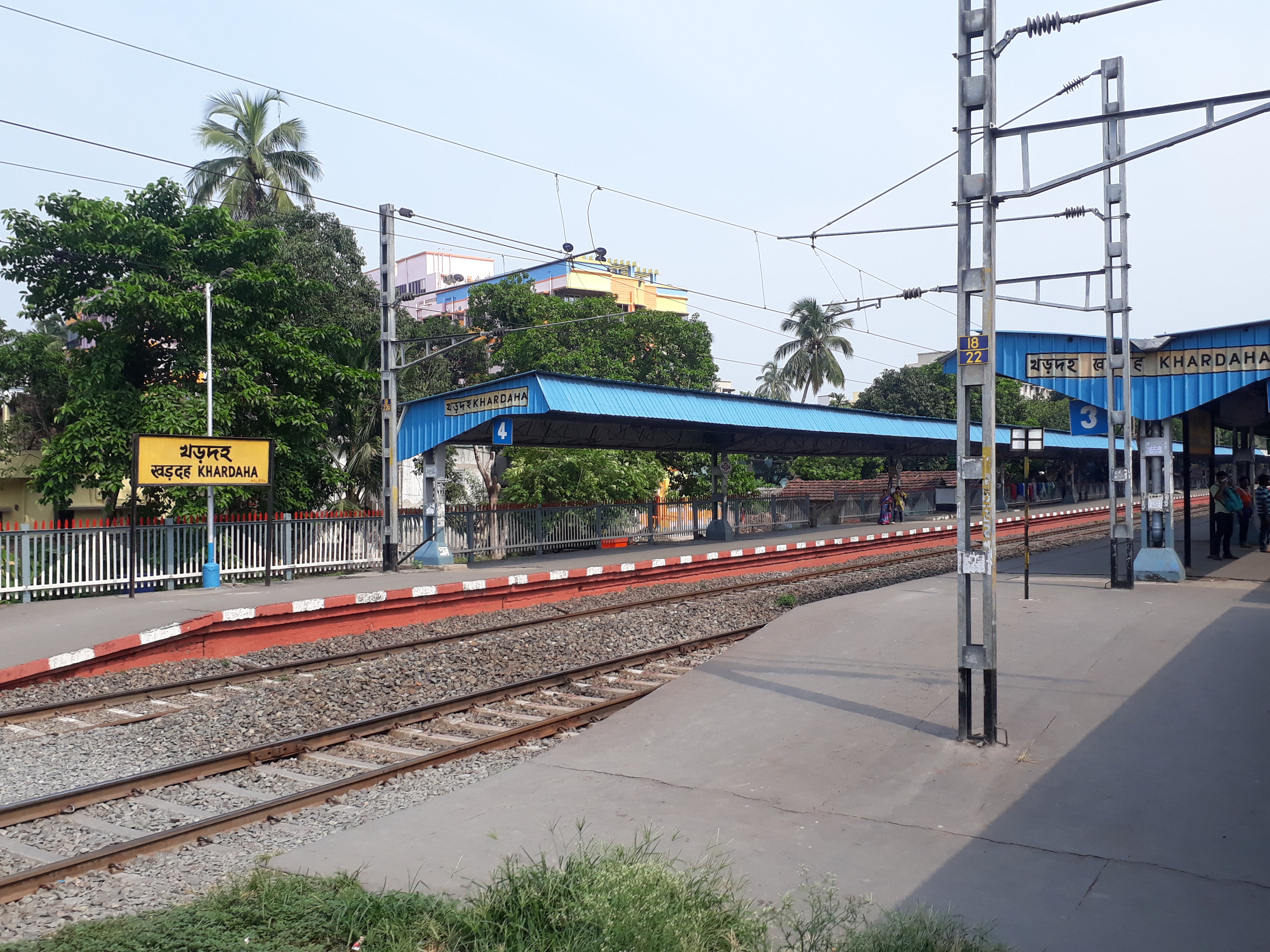 Khardah Railway stations in North 24 Parganas district, Sealdah main line, Khardah